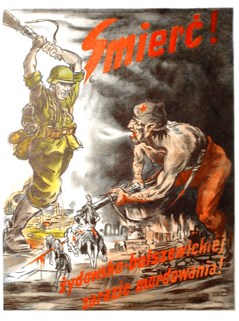 German propaganda antisemitic and anti-Soviet poster, written clumsy in Polish language. Says: "Detah! to jewish-bolshevik plague of murdering". Hanged out on streets of Kraków under German WWII occupation